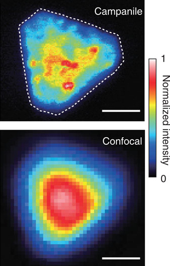 Top: map of the PL emission intensity of a triangular ML-MoS2 flake using the Campanile probe. The white dashed line indicates the flake boundary as determined from the shear-force topography. Bottom: an image of the same flake acquired with scanning confocal microscopy using a × 100, 0.7-NA air objective. Scale bars, 1 μm.